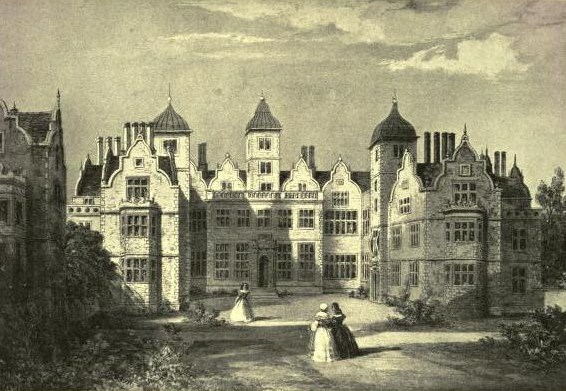 Aston Hall nr. Birmingham, England